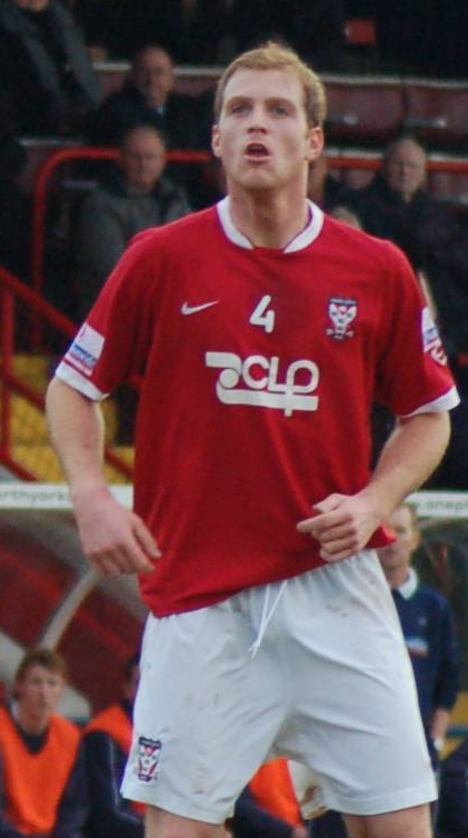 Neal Bishop playing for York City against Weymouth at Bootham Crescent, York on 17 February 2007